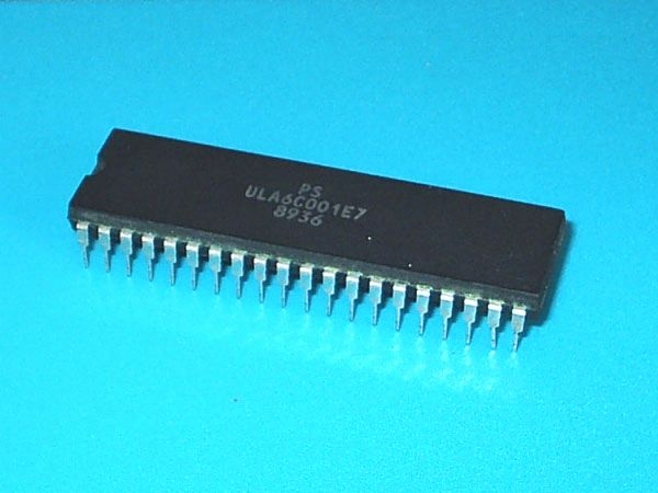 ZX Spectrum chipset